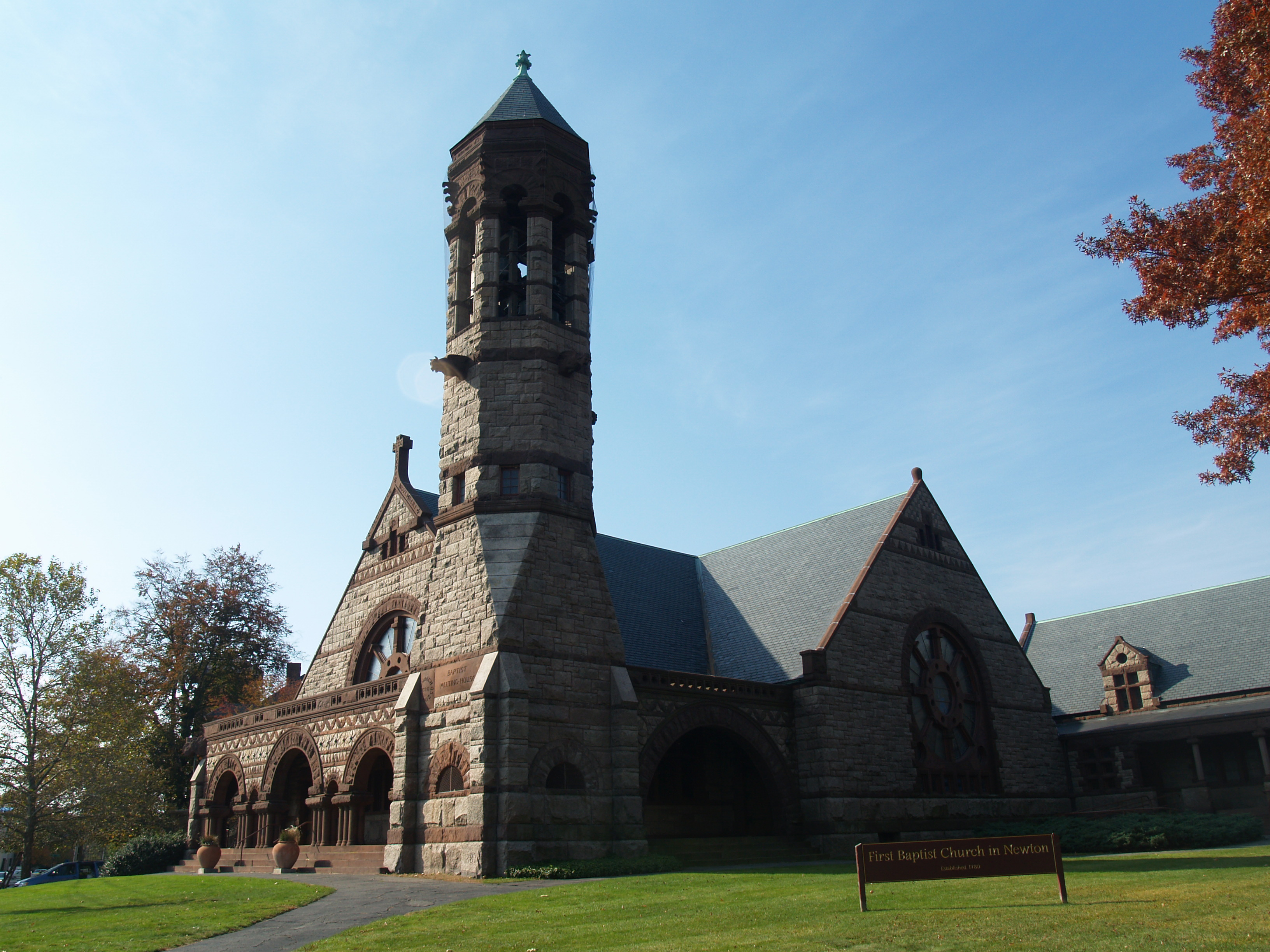 Photo of the outside of First Baptist Church in Newton taken from the corner of Beacon St. and Center St. in Newton, Massachusetts